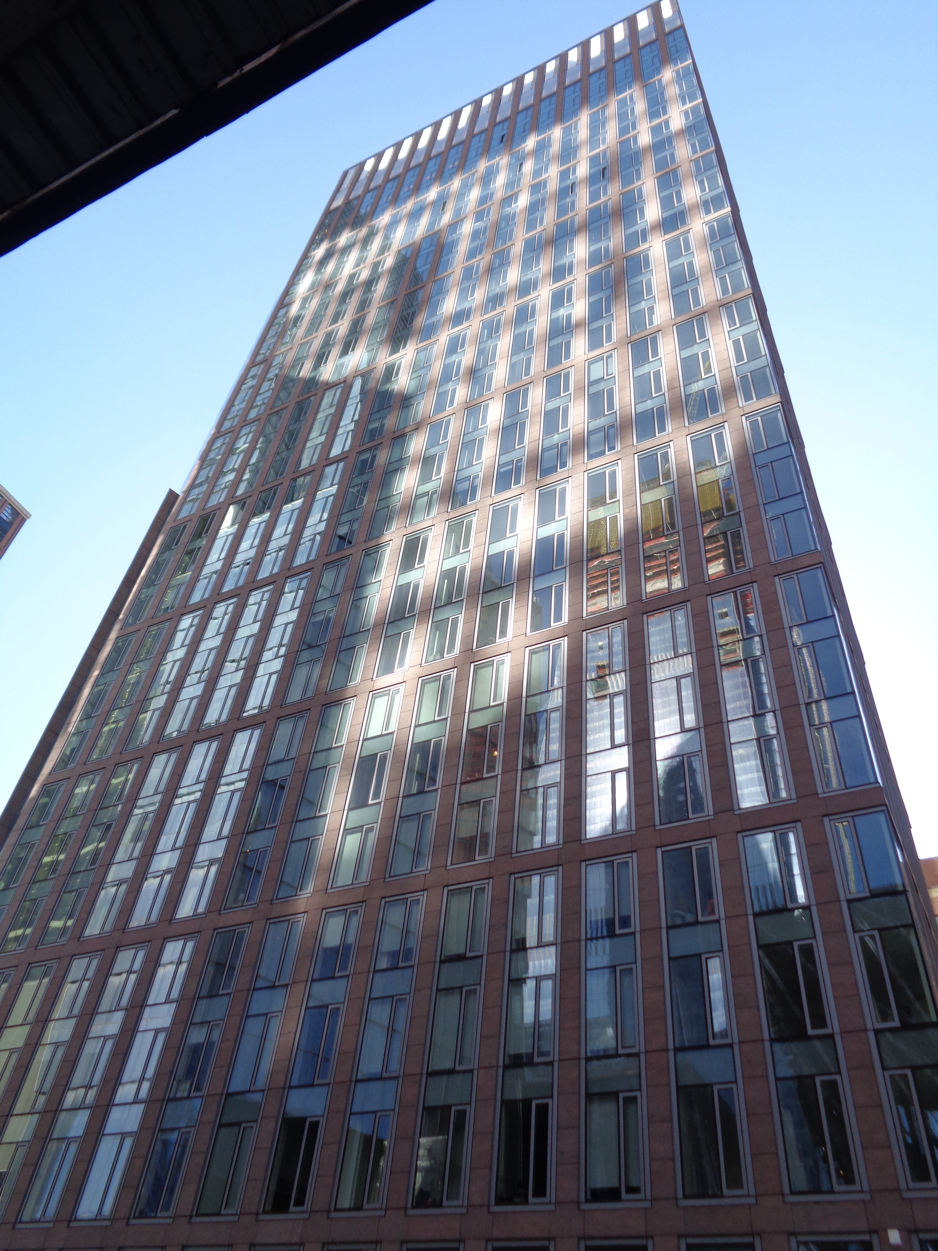 One Hudson Yards, looking from the High Line Section 3 above 30th Street adjacent to Hudson Yards in Hell's Kitchen, Manhattan. Technically, it is not part of the Hudson Yards development, but is operated by the same developers.